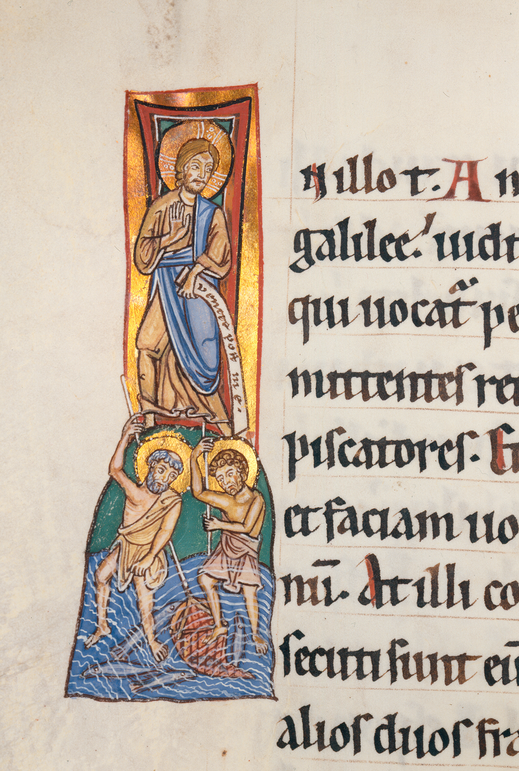 Evangelistar von Speyer, Manuscript in the Badische Landesbibliothek, Karlsruhe, Germany Detail from Cod. Bruchsal 1, Bl. 71v